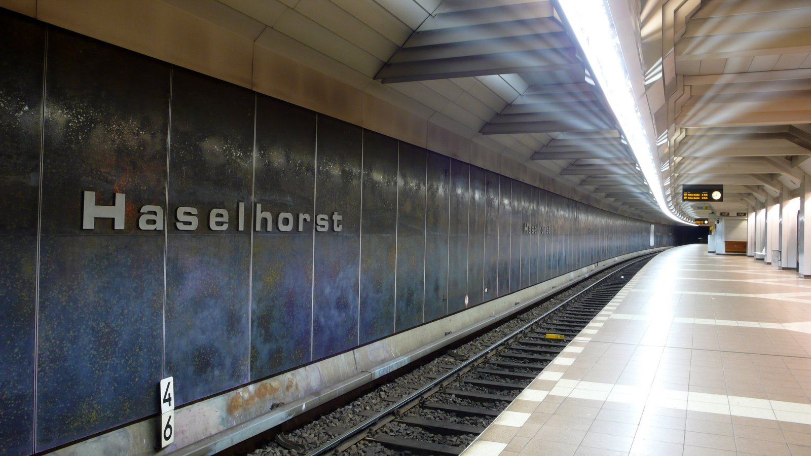 Subway Haselhorst Berlin